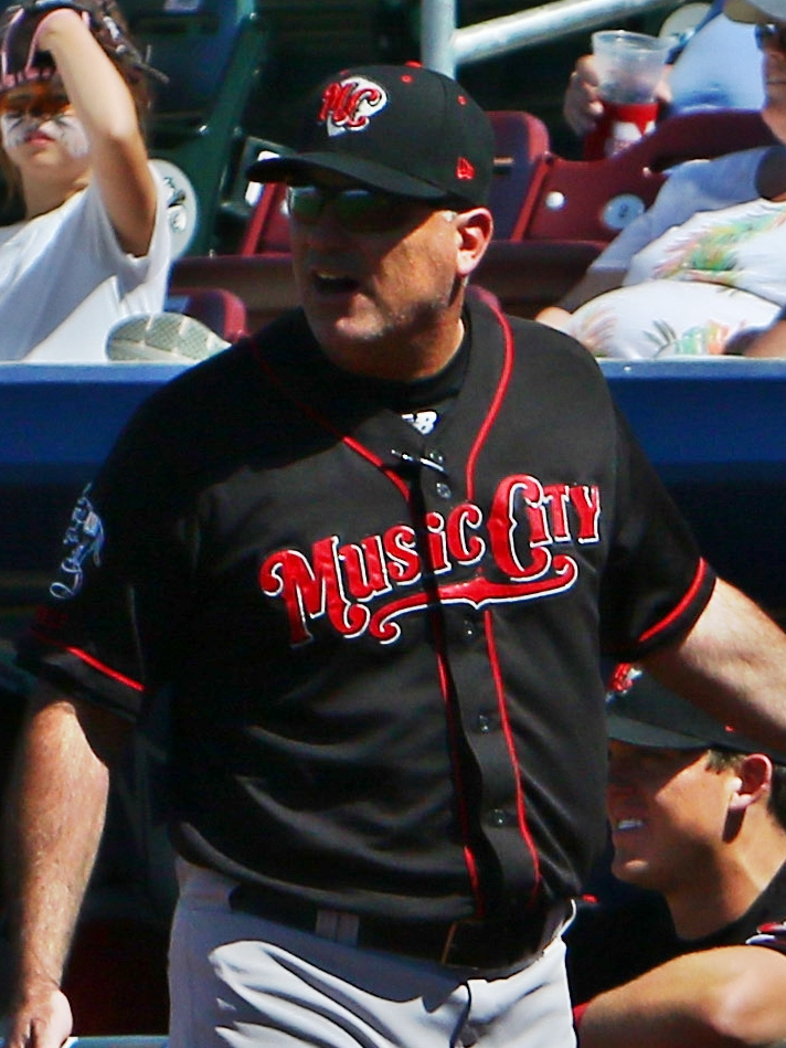 Minda Haas Kuhlmann | 2016 USAGE INSTRUCTIONS: You are welcome to share or publish to your own site or social media account, but you MUST credit me, Minda Haas Kuhlmann, or by my Twitter handle (@minda33) or Instagram (minda.haas).